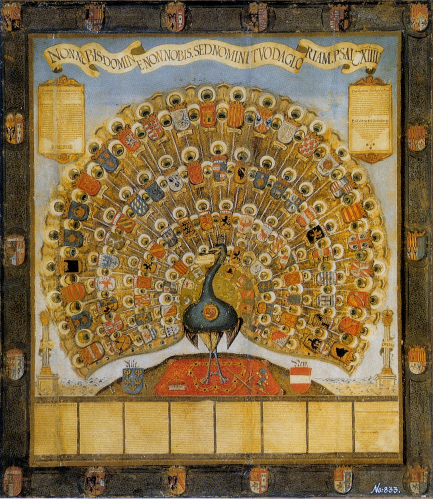 „Habsburg Peacock“ with the coats of arms of the Habsburg lands, Augsburg 1555